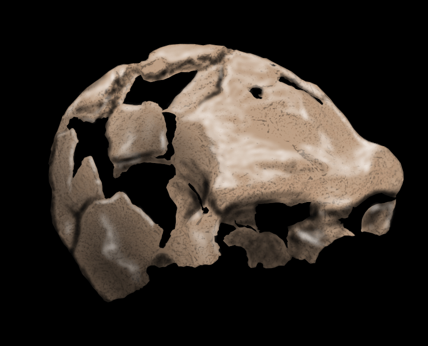 Digital picture of the Ceprano skull